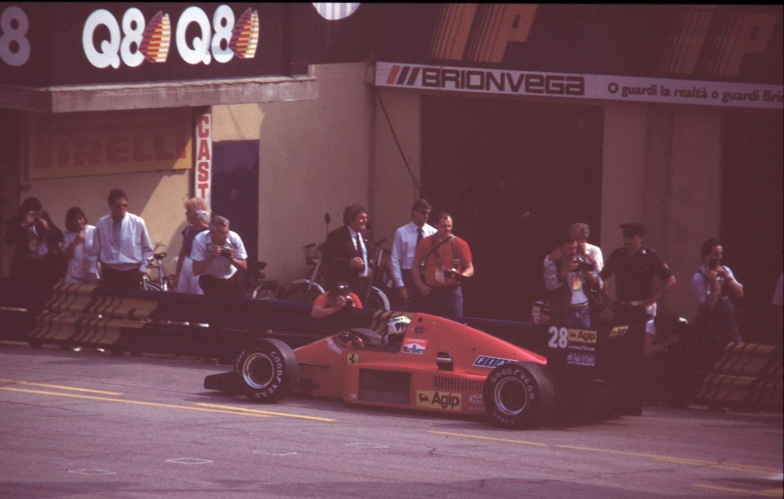 Johanson at 1986 Italian Grand Prix